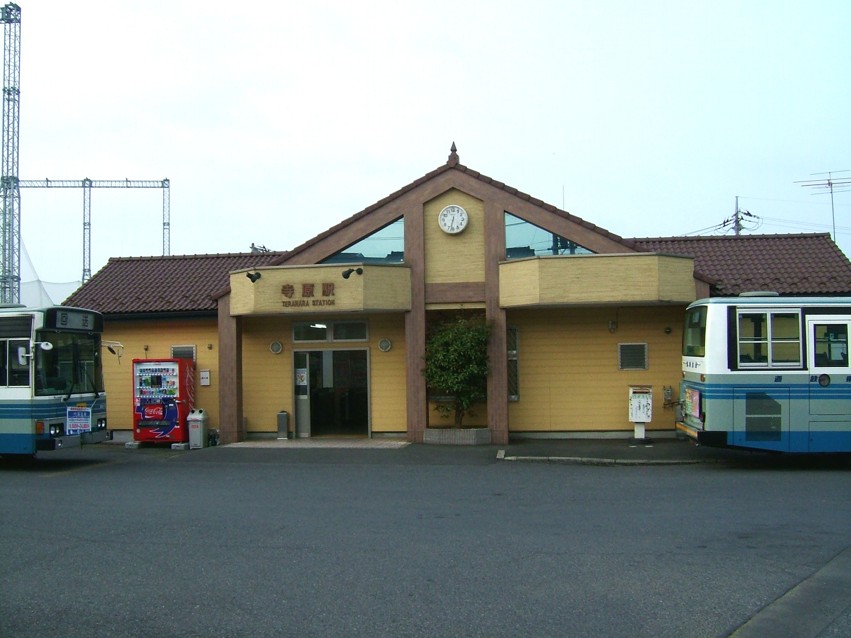 Terahara Station (Kanto Railway Jōsō Line)